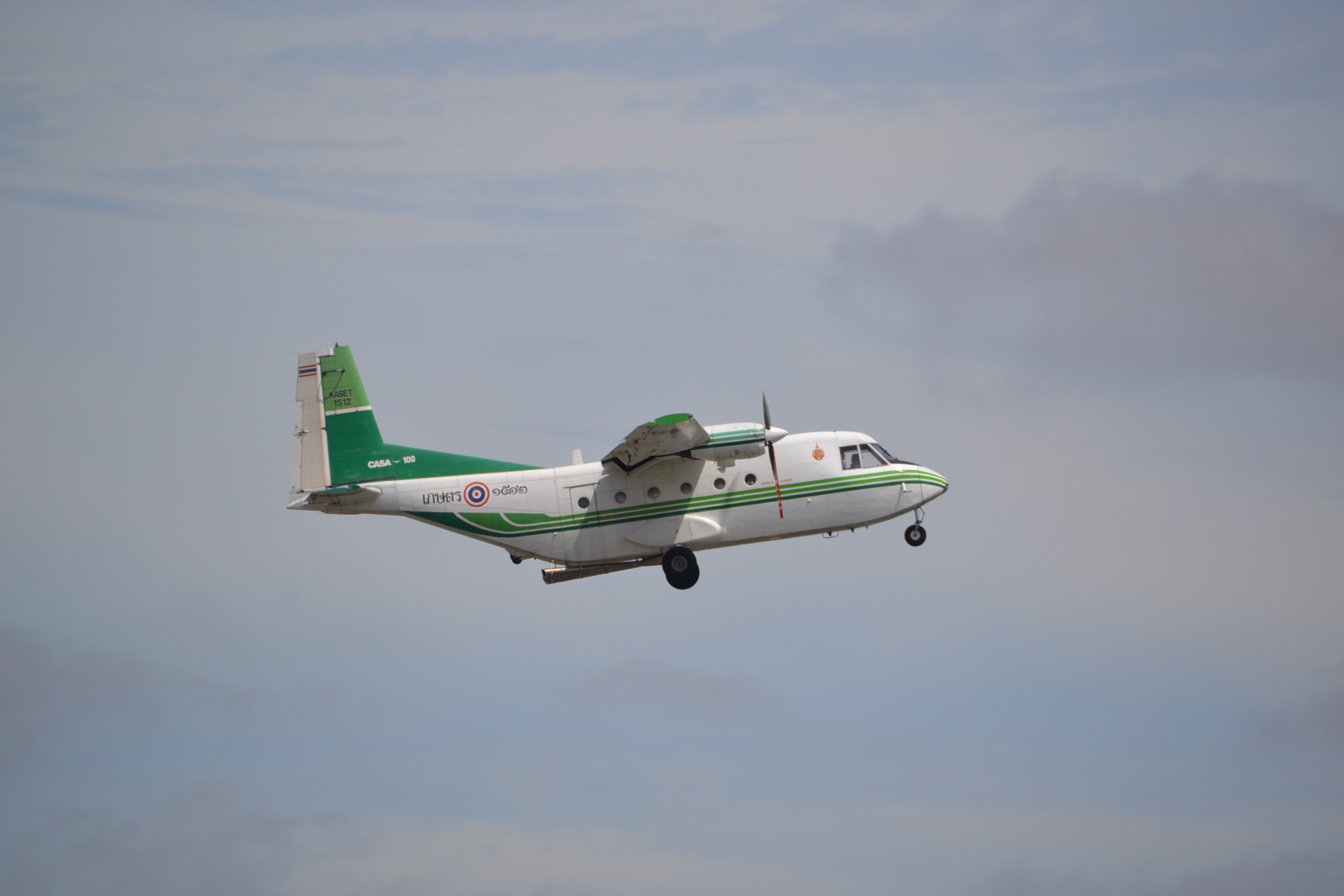 CASA 212 of KASET,(Bureau of Royal Rainmaking & Agricultural Aviation,) departing Khon Kaen-KKC, Thailand, on a cloud seeding mission,17/07/14.